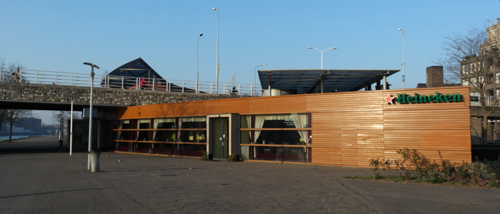 Maastricht, the Netherlands. View of Maastricht Music Hall in Griendpark.